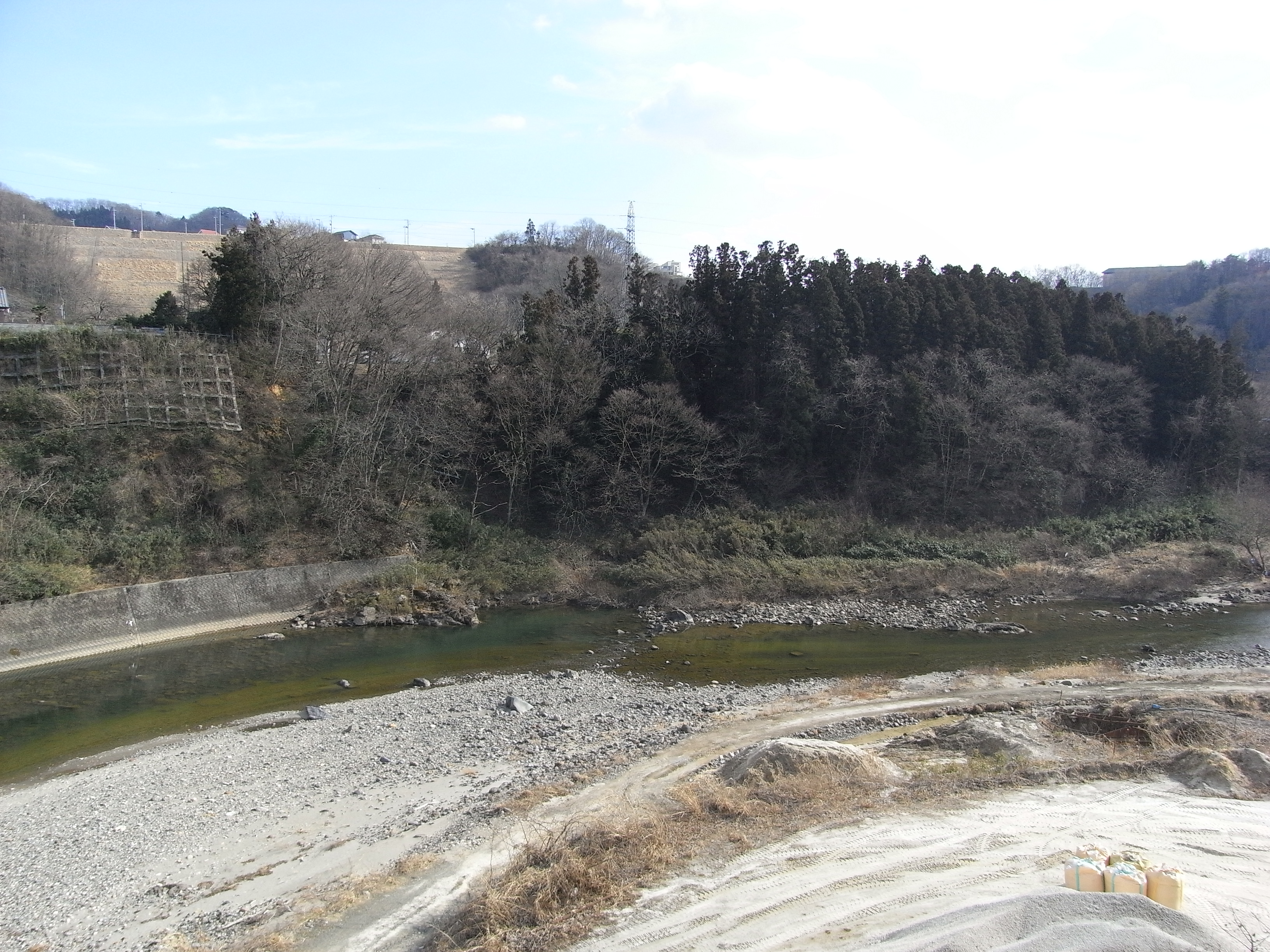 Natori River. From the Notori Second Bridge (Natori Nigō Hashi) on the border between Sendai (here) and Natori (there), Miyagi prefecture, Japan.